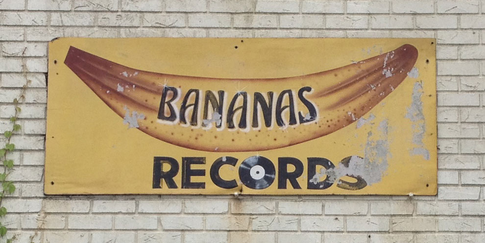 Sign at the Bananas Music warehouse, which houses 3 million vinyl records. Located at 2226 16th Ave N. in St. Petersburg, Florida.